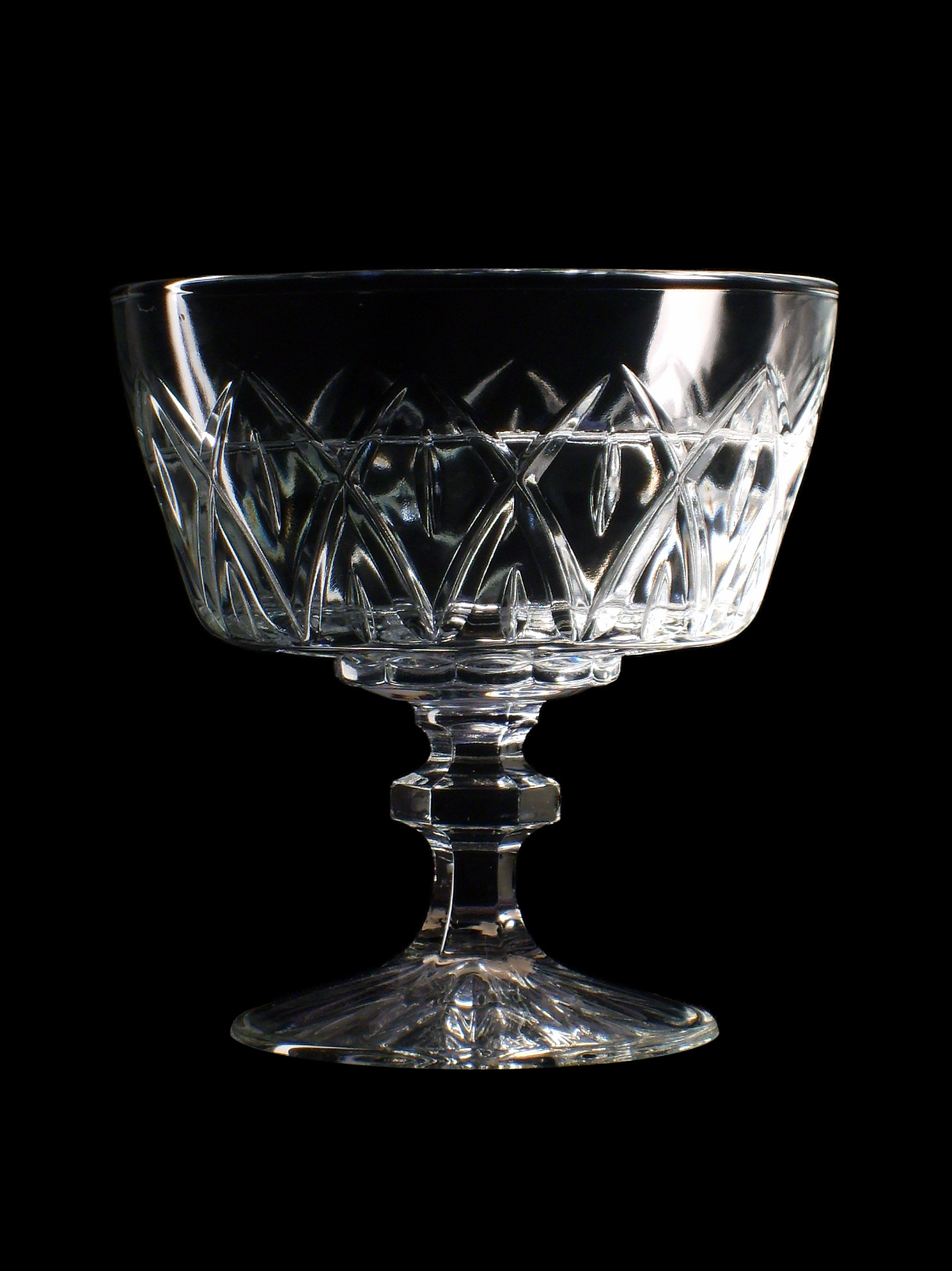 Champagne coupe.